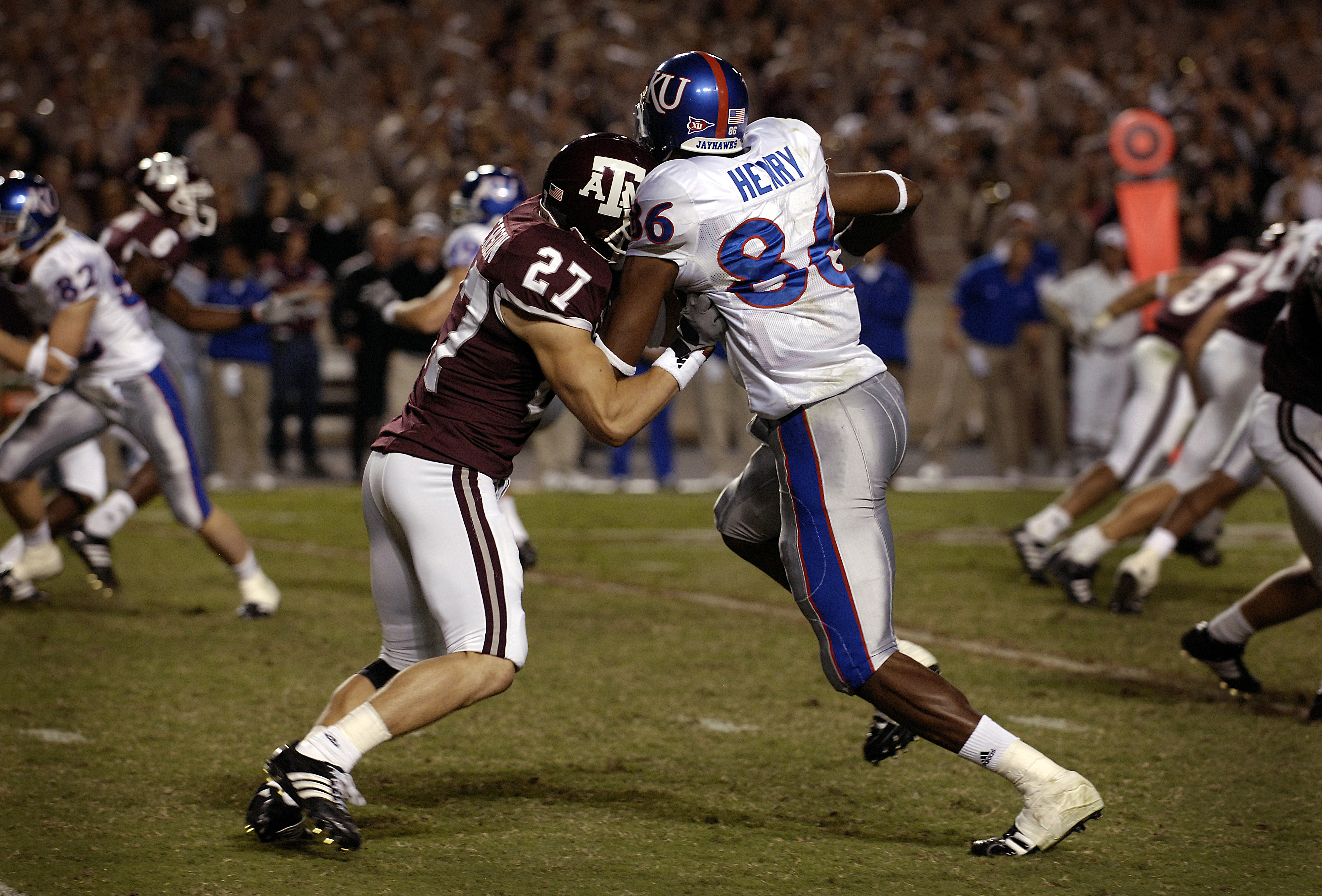 University of Kansas Jayhawks wide receiver Marcus Henry (#86) carries the ball against the Texas A&M Aggies during a football game in College Station, Texas, Oct. 27, 2007. Secretary of Defense Robert M. Gates and President George H. W. Bush both attended the game where Gates honored U.S. Marine Corps 1st Lt. Dan Moran, a former Aggie student who was wounded while serving in Iraq, with the Navy Commendation Medal with Valor.